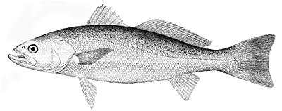 A line drawing of a weakfish (Cynoscion regalis).